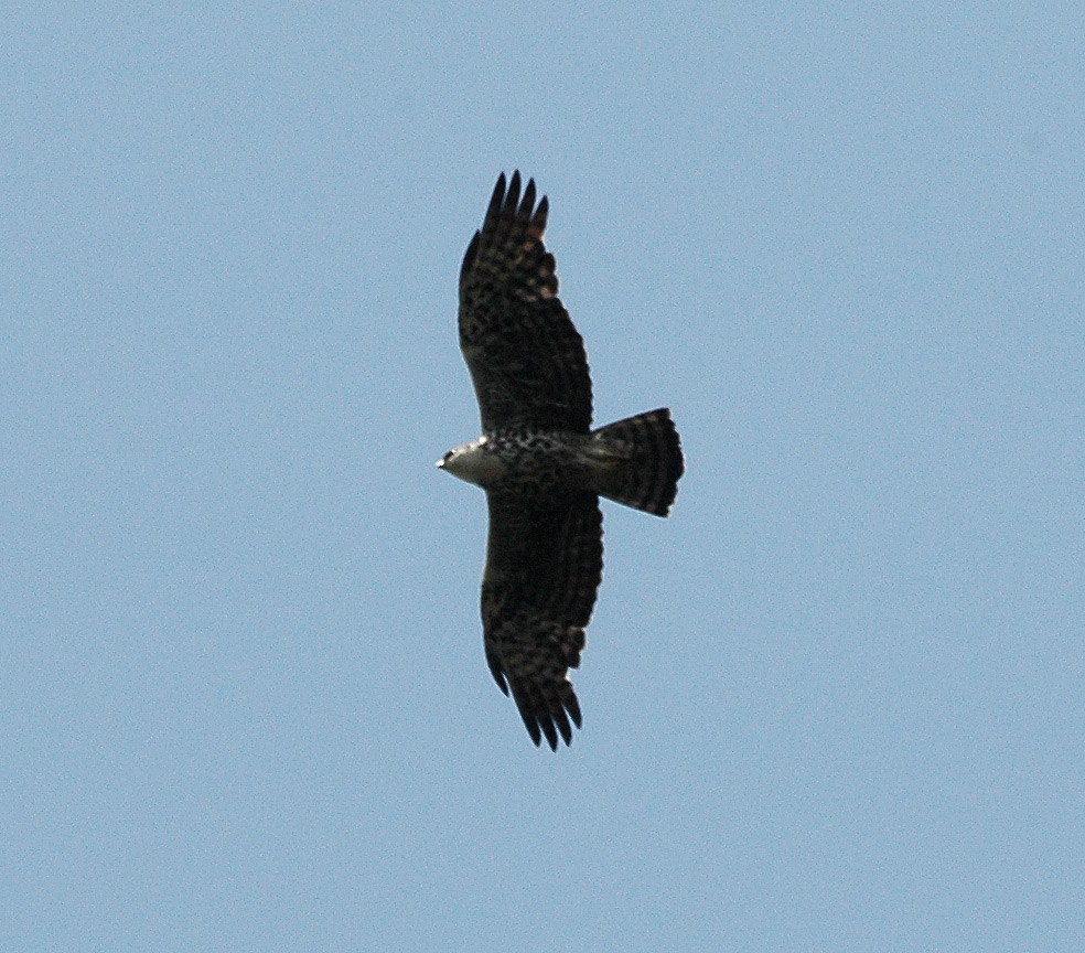 Ayres's Hawk-eagle (Hieraaetus ayresii) Mabira Forest, Uganda